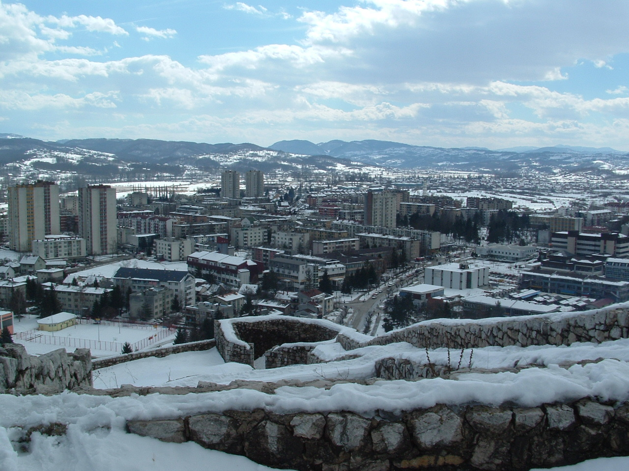 V.I., picture taken with own digital camera. Southeast view (March 2005) from fort "Gradina". Half of Doboj centre is visible.